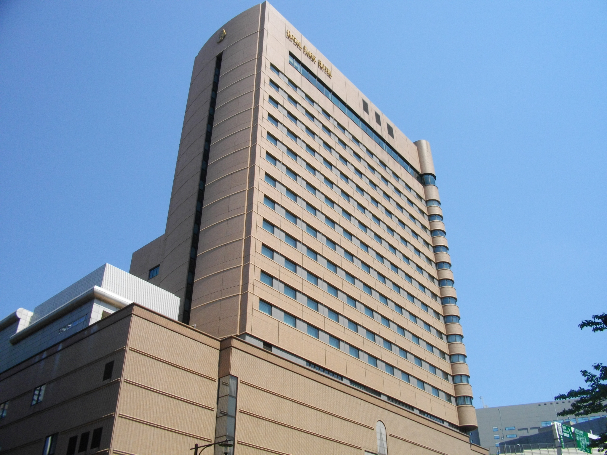 Royal Park Hotel (Tokyo)